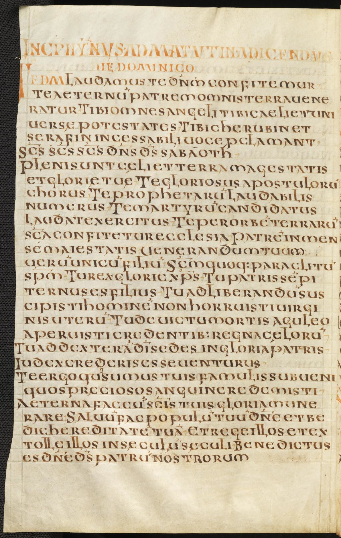 Beginning of the hymnal portion in Vat. Reg. Lat. 11.